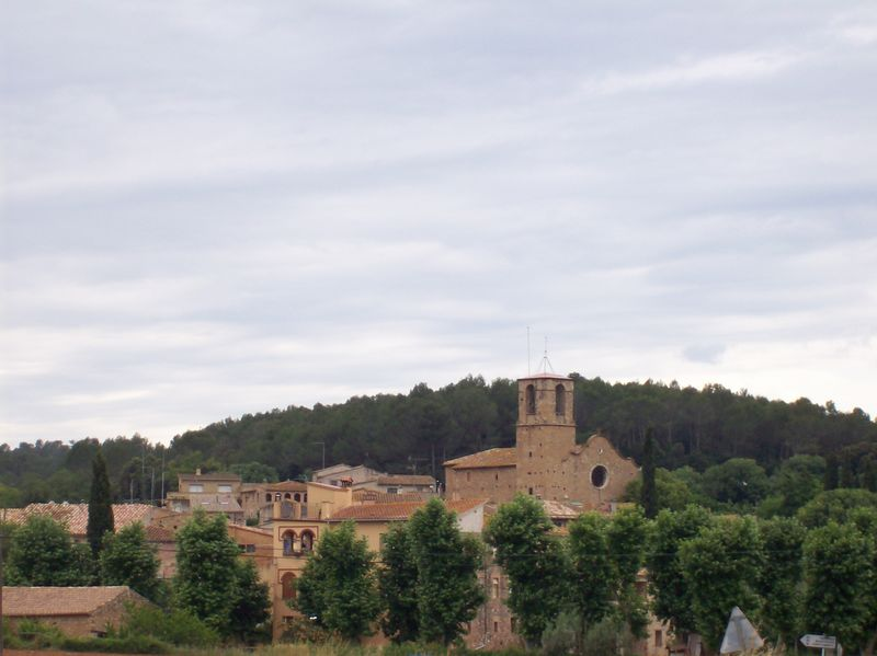 The town of Galliners( Vilademuls, Pla de l'Estany, Girona, Catalunya).